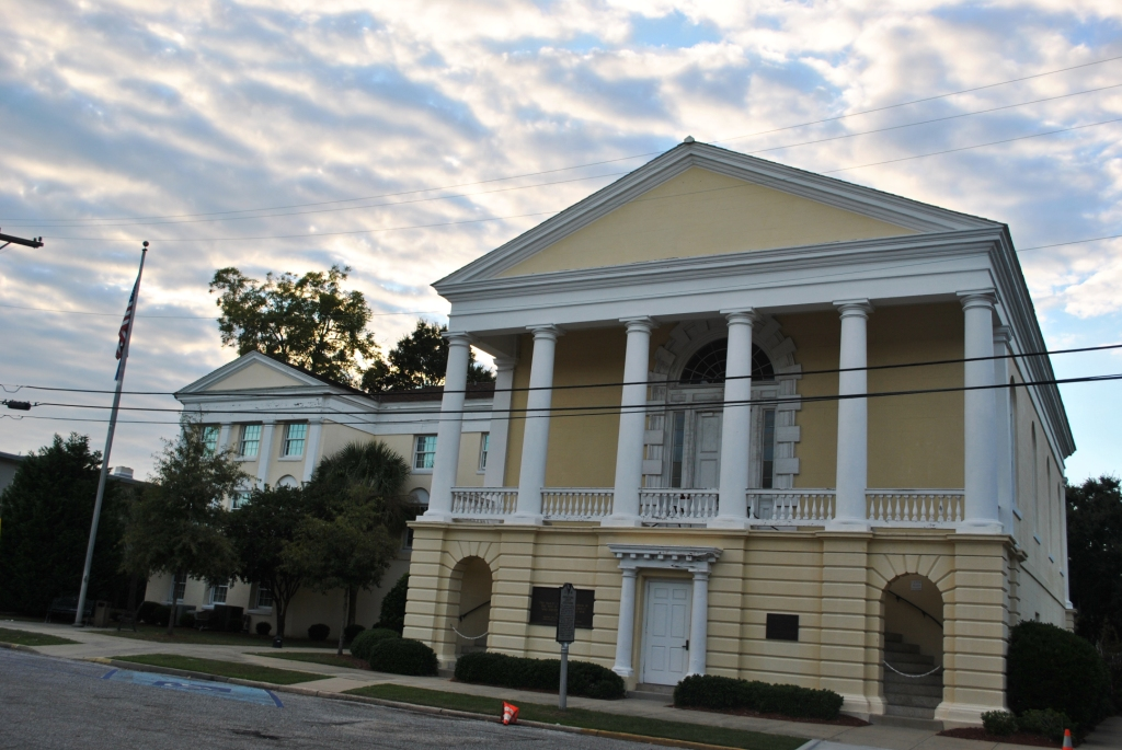 Georgetown County Courthouse